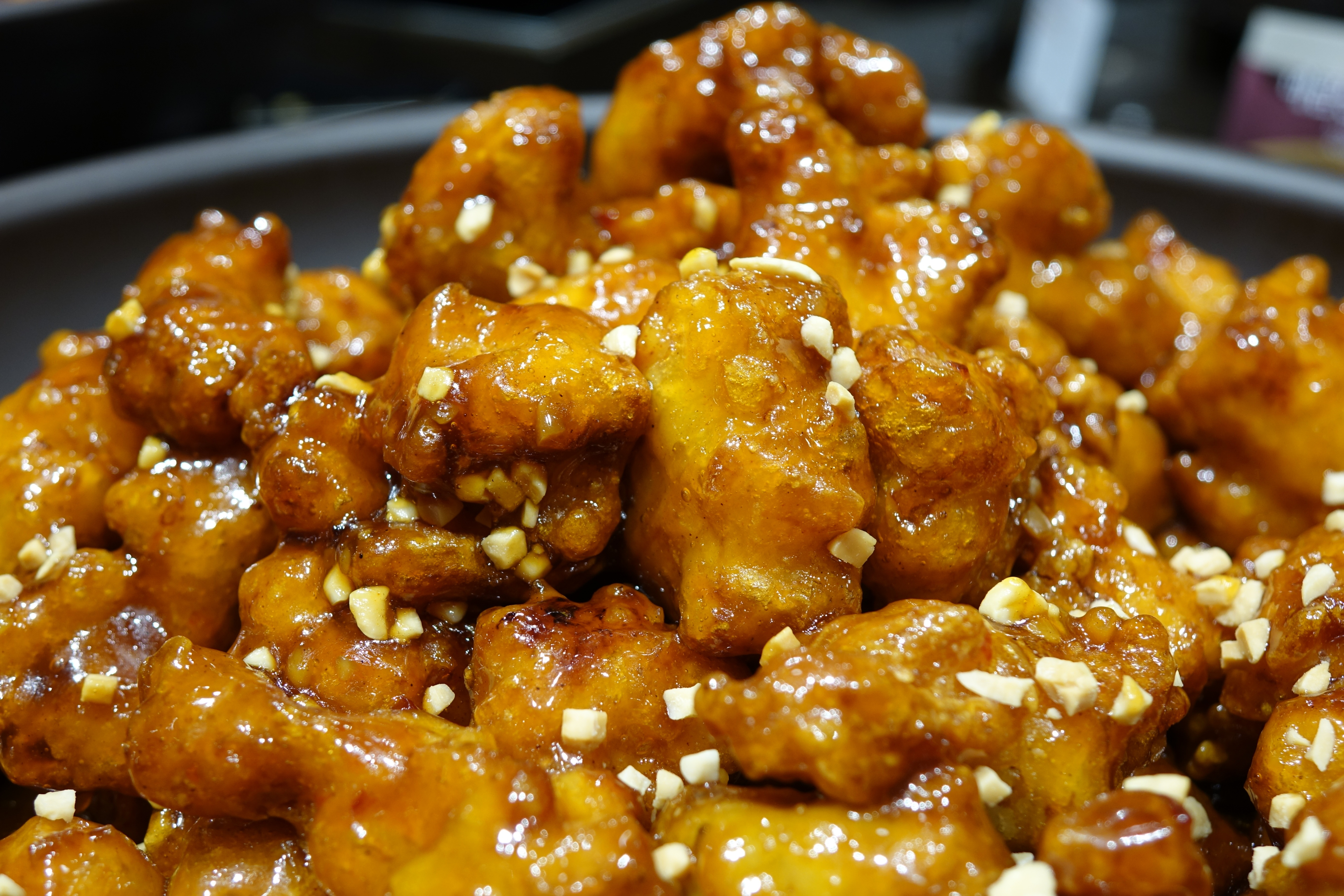 Dak-gangjeong (chicken nuggets)